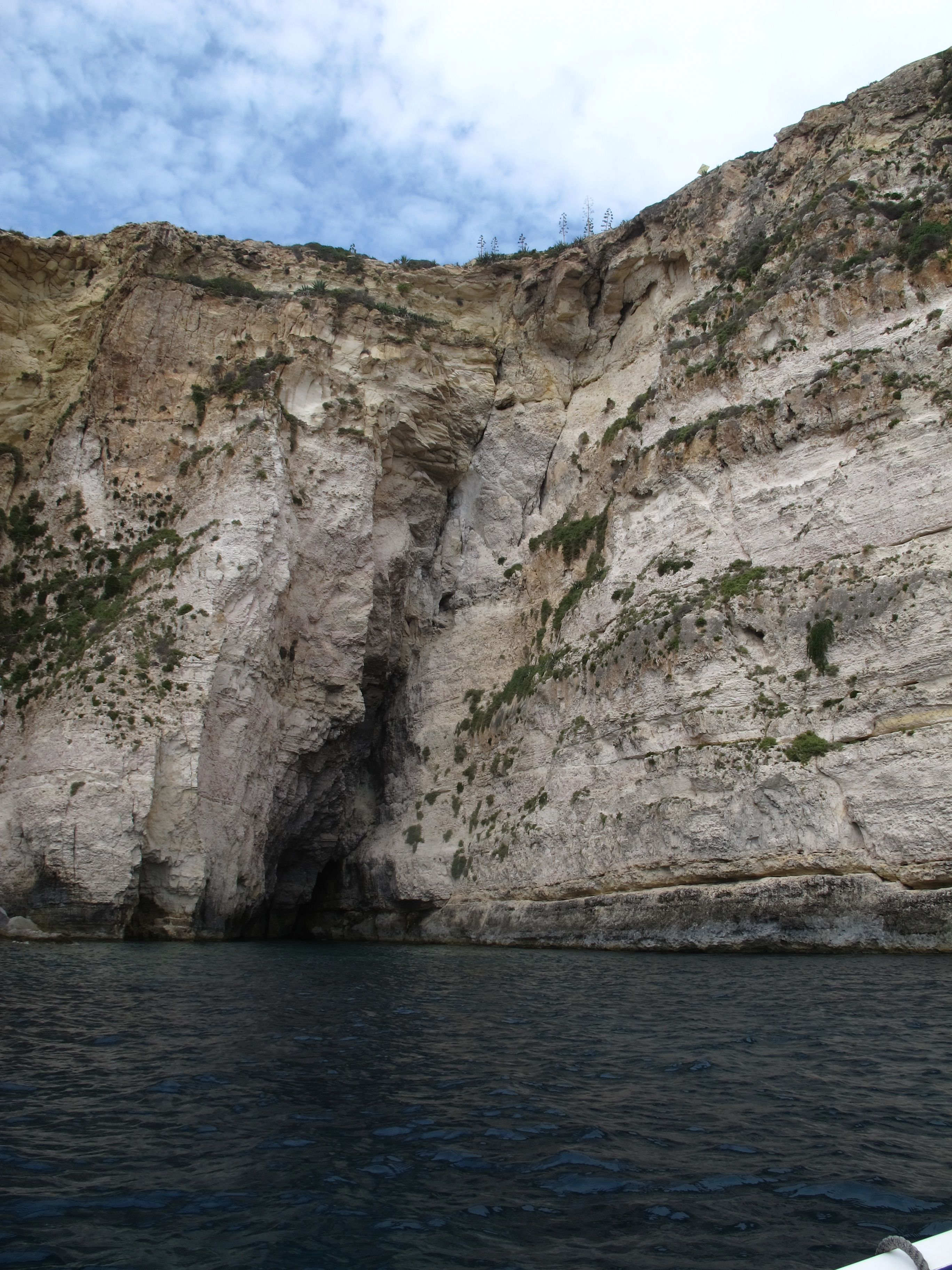 SW-dipping normal fault on the coast of Malta, near the Blue Grotto. Displacement of several metres. Note formation of cave where fault reaches the waterline